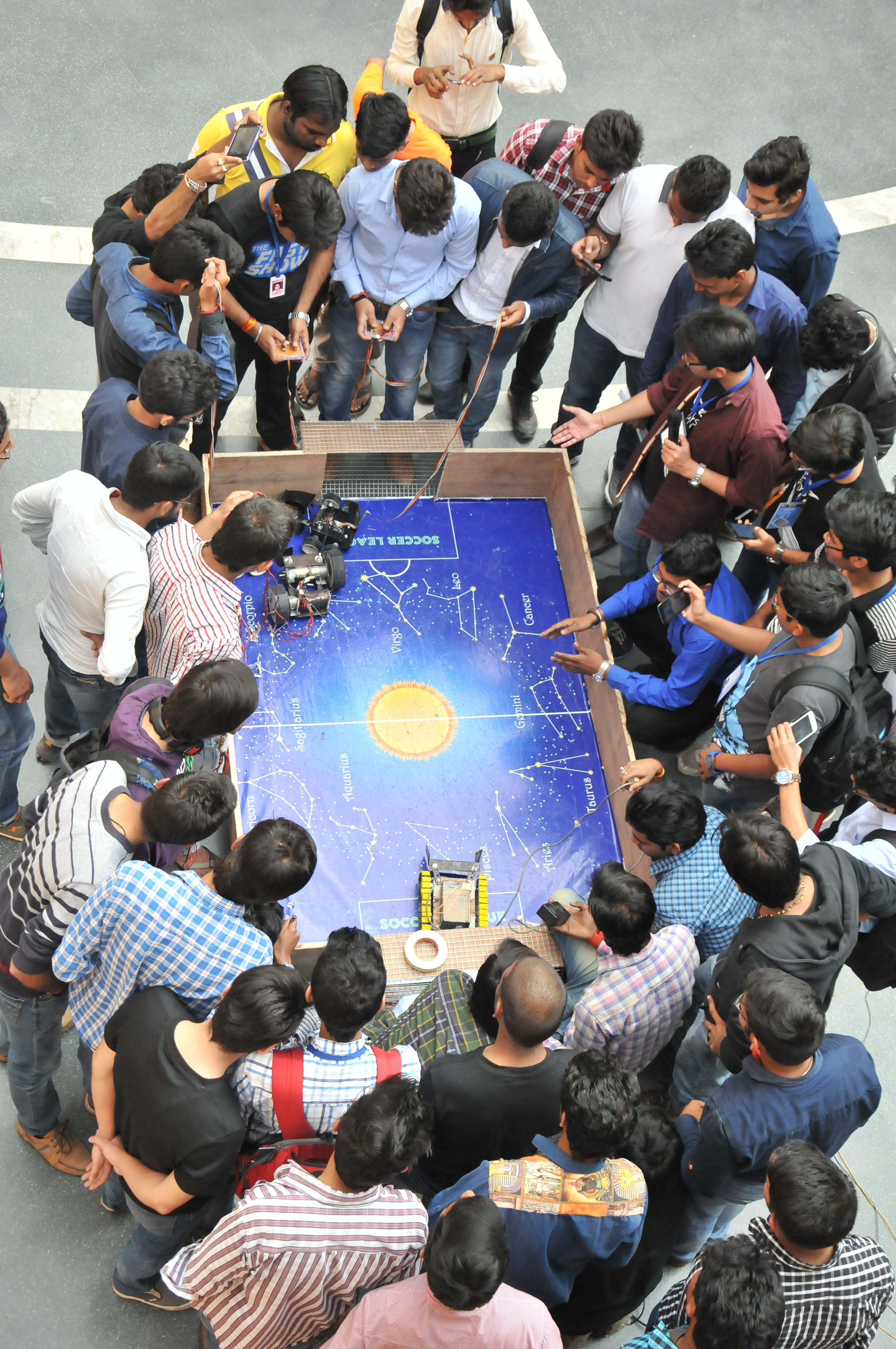 robowar